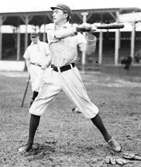 "Informal full-length portrait of baseball player Bob Meinke of the Logan Square baseball team, swinging a baseball bat, standing in front of bleachers on a baseball field in Chicago, Illinois."